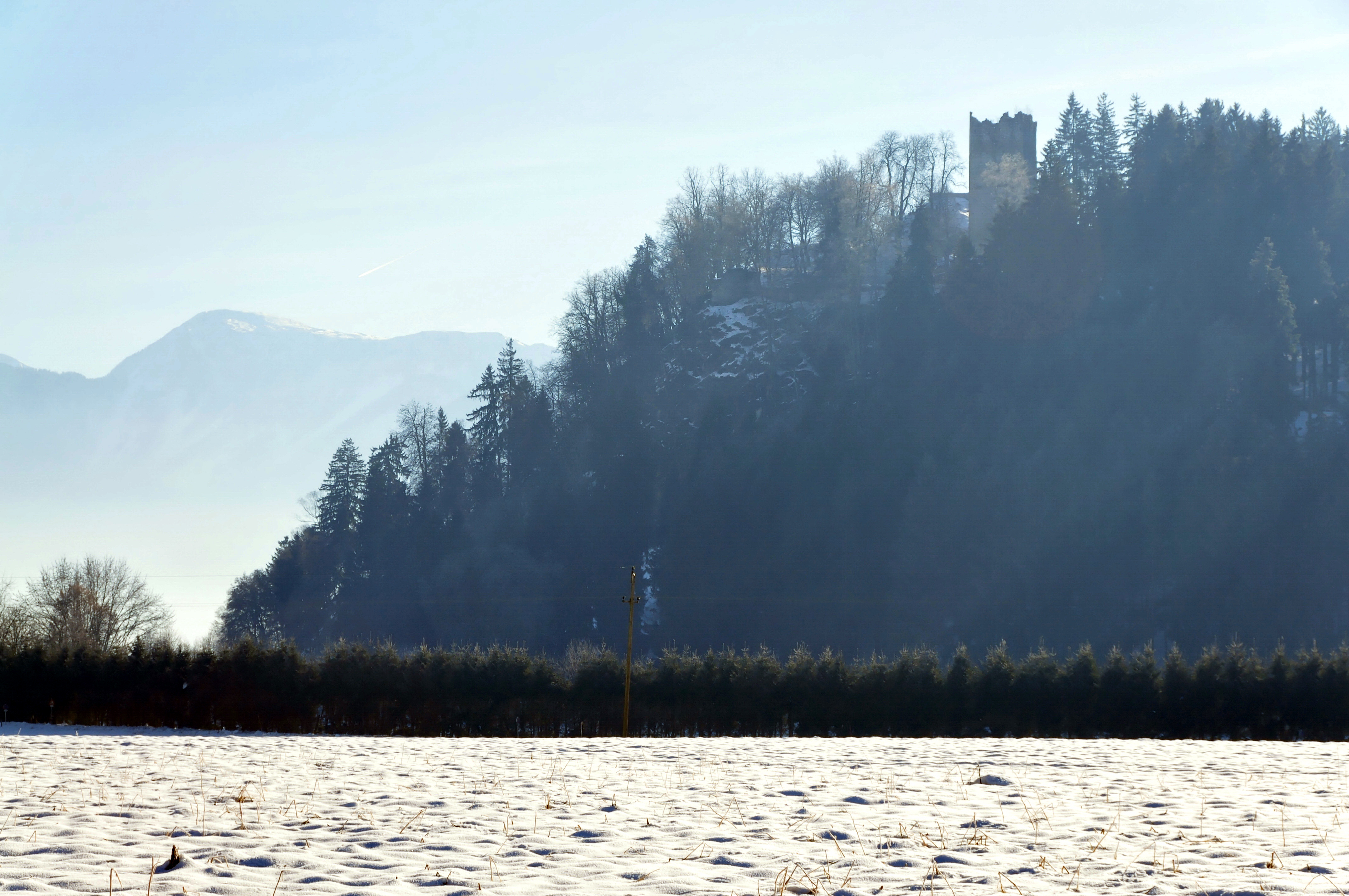 Northwest view at the castle ruin Old Rosegg, municipality Rosegg, district Villach Land, Carinthia, Austria